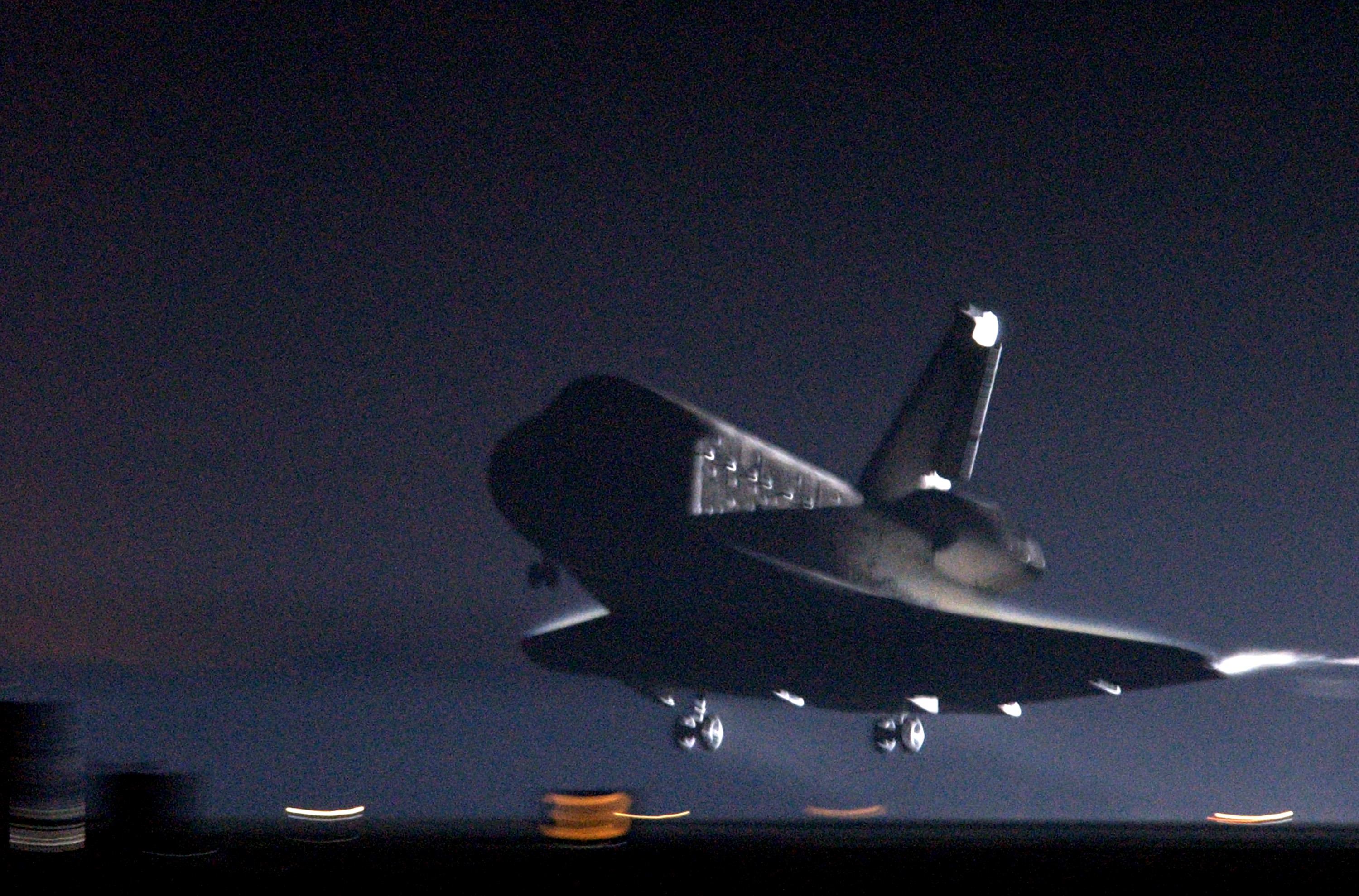 The Space Shuttle Columbia, with its crew of seven astronauts on board, approaches touchdown on Runway 33 of the KSC Shuttle Landing Facility, completing mission STS-109 to service the Hubble Space Telescope. Wheel stop occurred on orbit 165 at 4:33:09 a.m. EST with mission elapsed time of 10 days, 22 hours, 11 minutes. Main gear touchdown occurred at 4:31:52 a.m. and nose wheel touchdown an 4:32:02. It was the 58th landing at KSC out of 108 missions in the history of the Shuttle program.